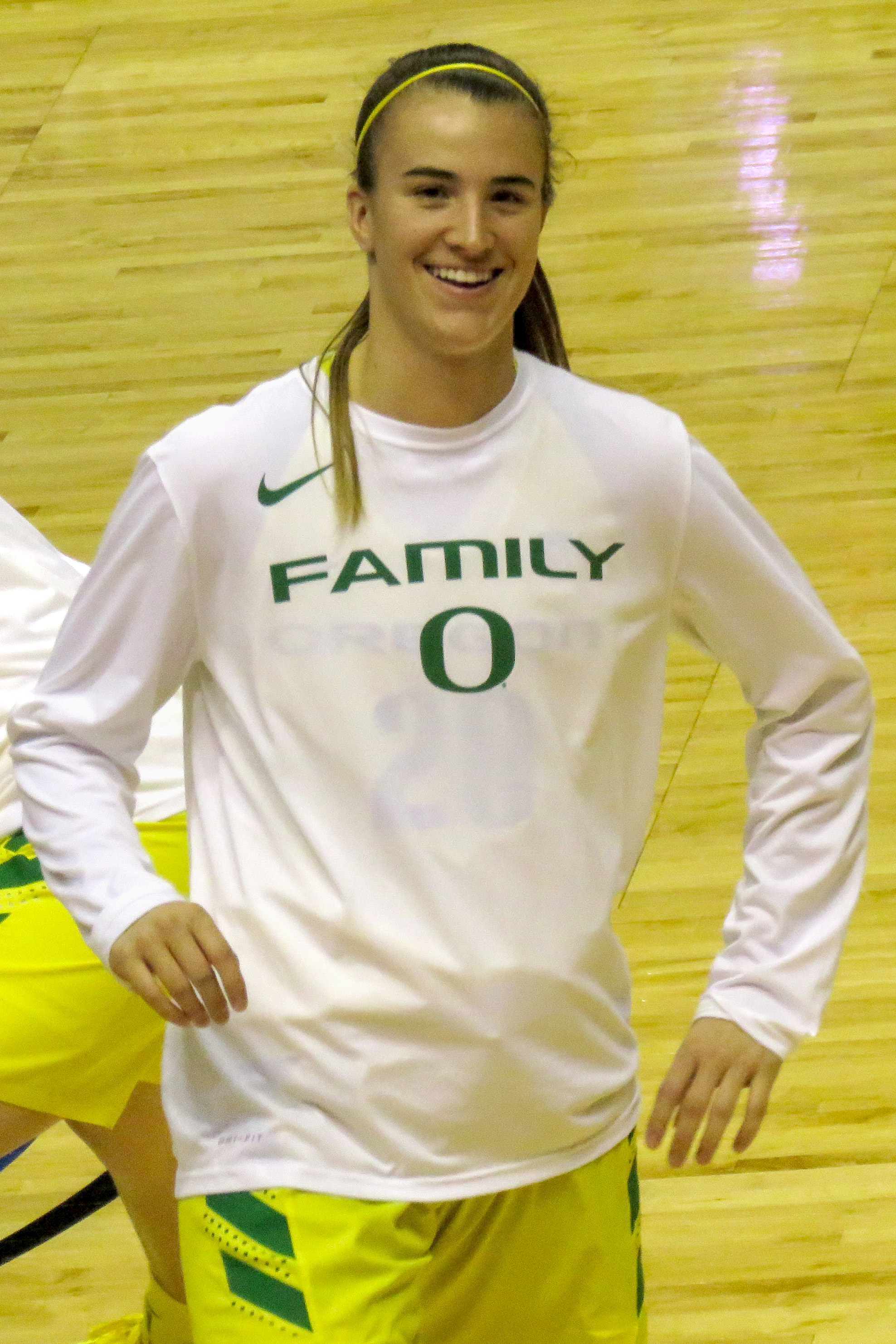 Sabrina Ionescu of the University of Oregon Ducks at the 2012 Pac-12 Conference Women's Basketball Tournament in Las Vegas, Nevada